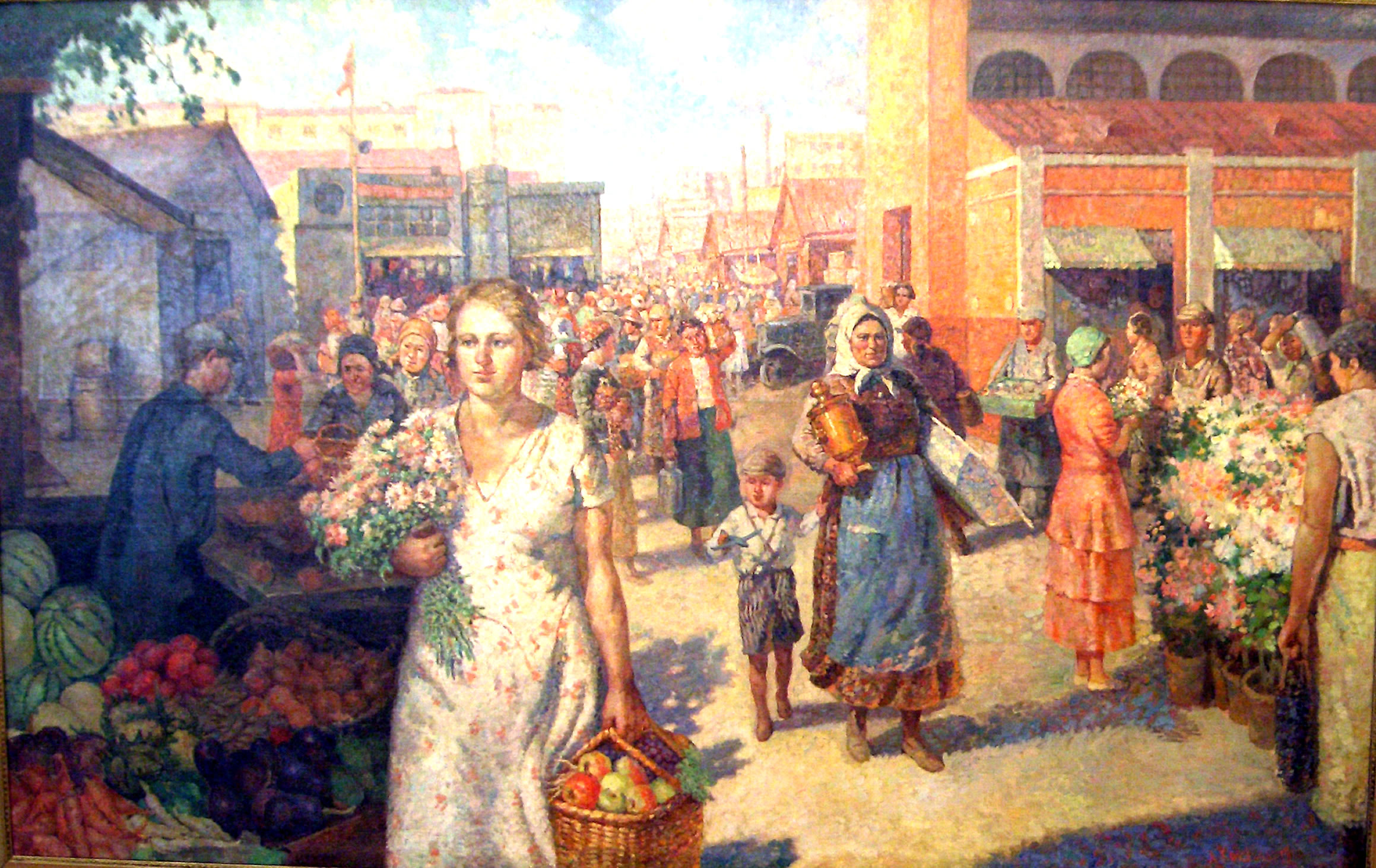 Kolkhozean Bazaar, 1934 (Kharhiv) by O. O. Kokel (1880 - 1956) Donetsk Art Museum, Donetsk, Ukraine. Oil Painting (approx 4m x 3m).